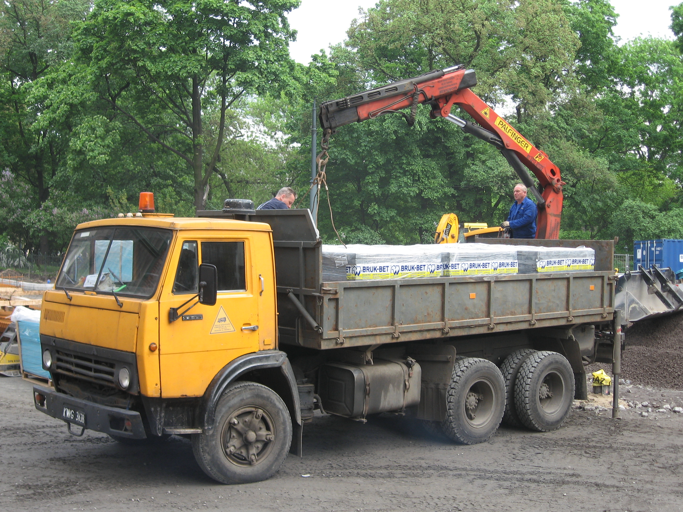 KamAZ-5320 truck in Kraków during repairs of an intersection of Długa and Basztowa streets.